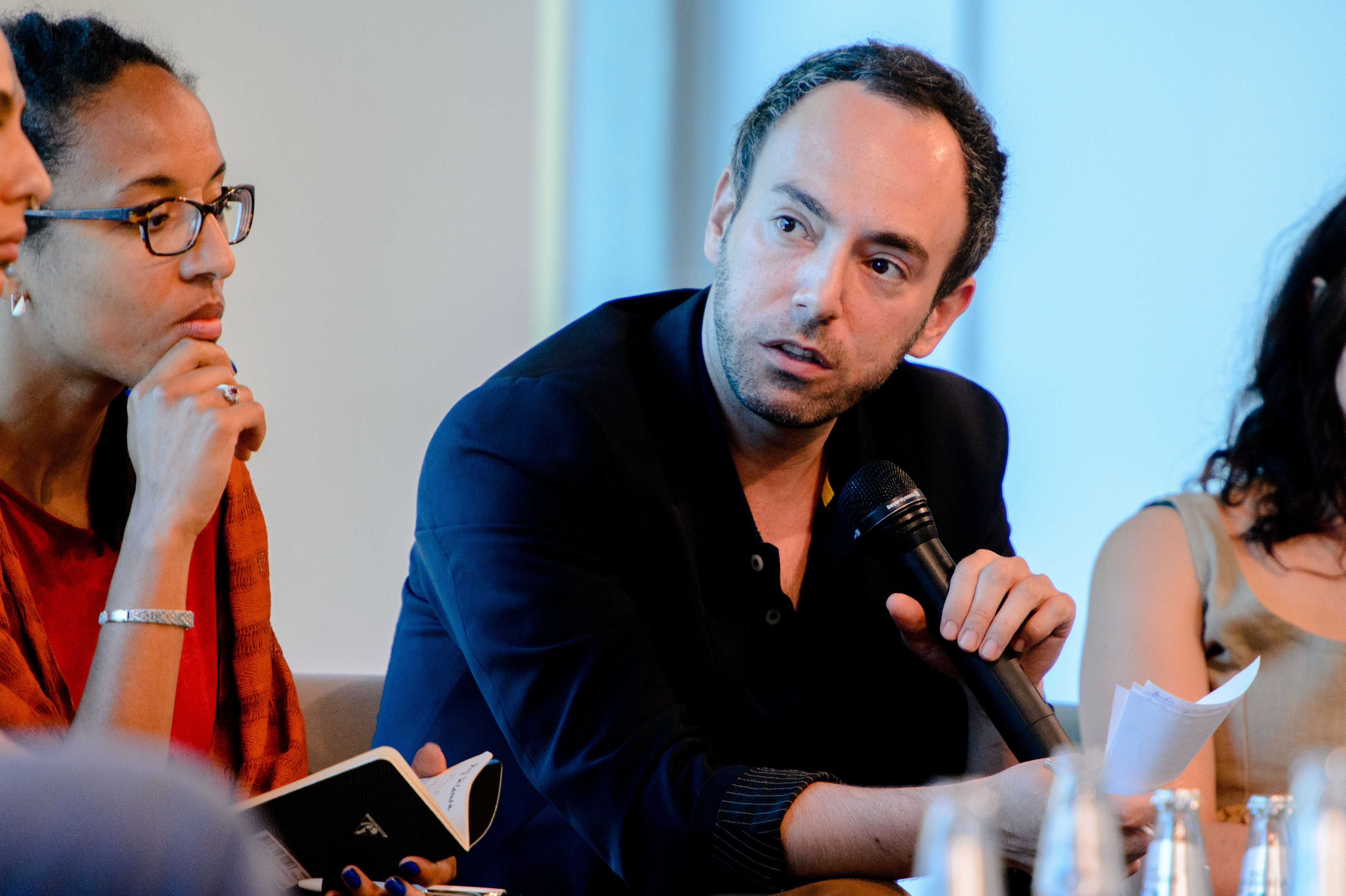 Sergey Lagodinsky (Jewish Community in Berlin, Heinrich-Böll-Stiftung)